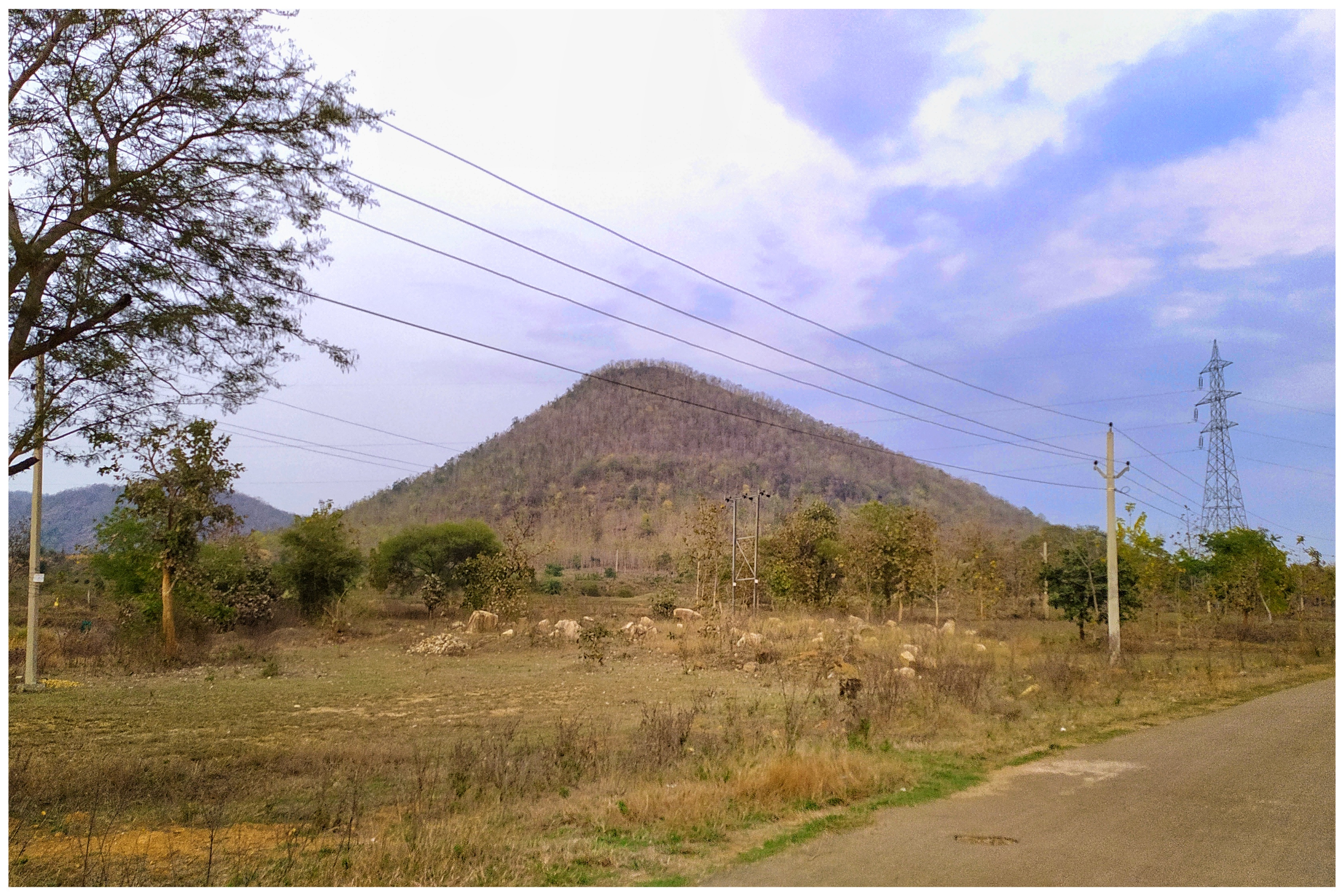 Chakadongar - Gateway of BARGAON